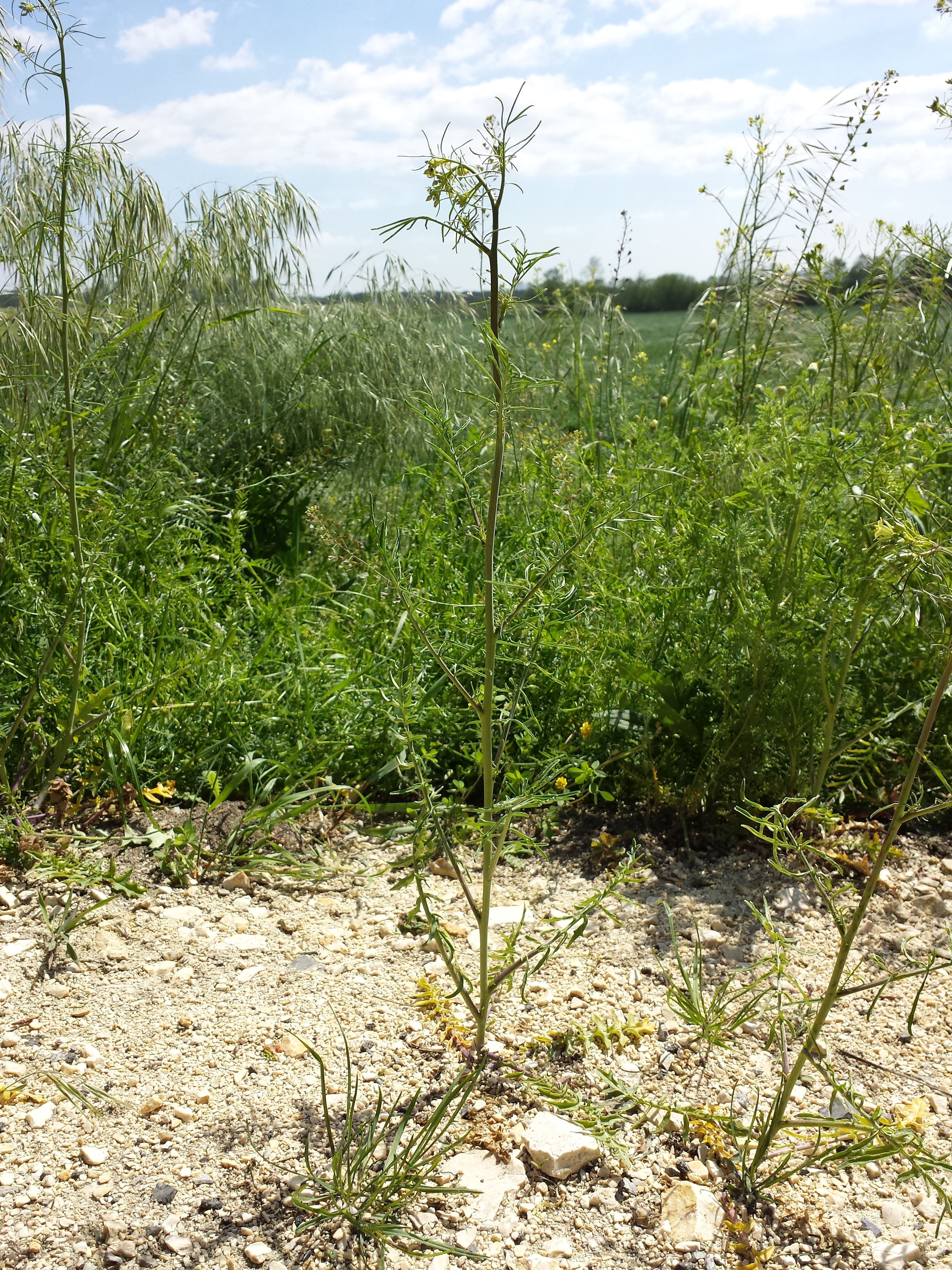 Habitus Taxon: Sisymbrium altissimum (sensu Fischer et al. EfÖLS 2008 ISBN 978-3-85474-187-9; det. M. A. Fischer 2014-05-04) Location: Ringelsdorf, district Gänserndorf, Lower Austria - ca. 150 m a.s.l. Habitat: wayside